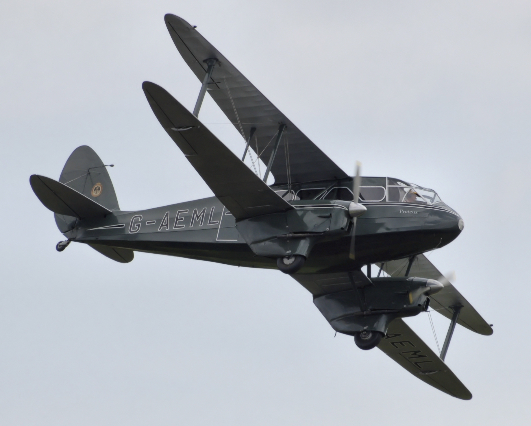 DH.89 Dragon Rapide (G-AEML) at Kemble Airport Open Day, Gloucestershire, England, 9th September 2007. Built in 1936. Photographed by Adrian Pingstone and placed in the public domain.